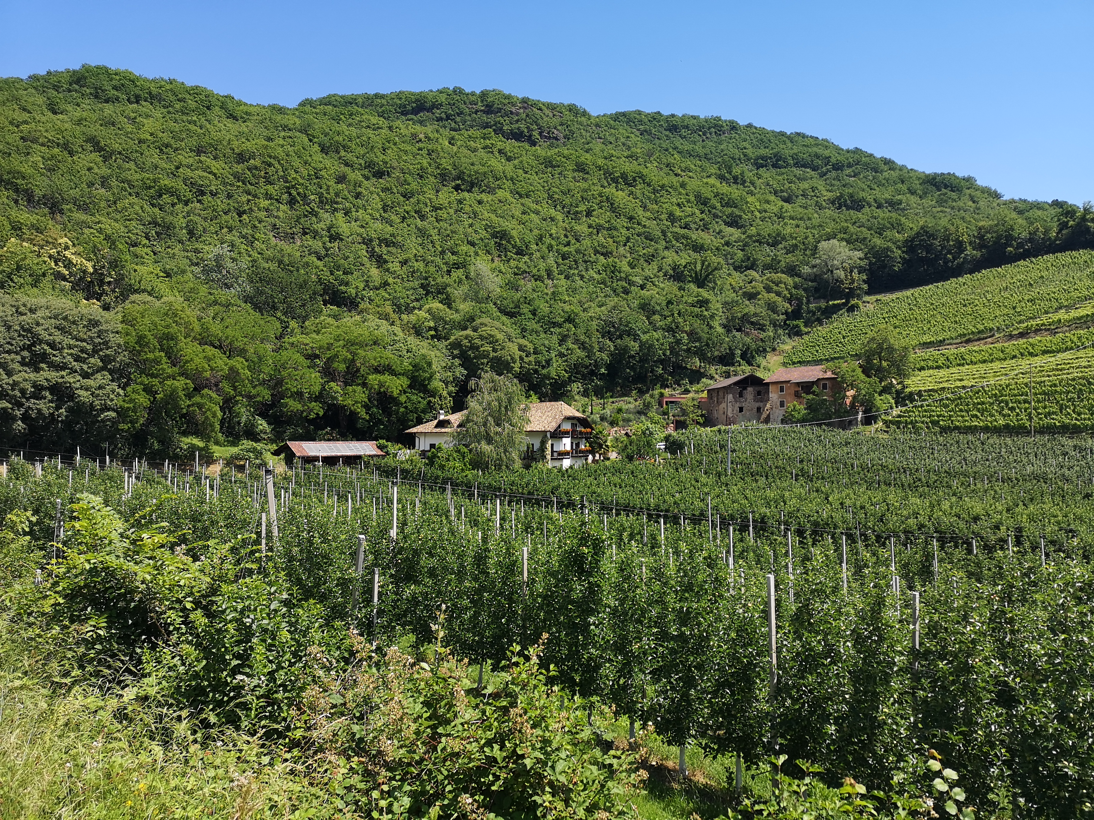 The Kreithof with its vineyards on the western side of the Kreiter Sattel near Pfatten-Vadena, South Tyrol